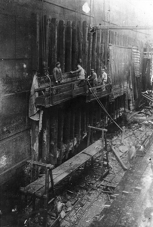 USS West Bridge (ID # 2888) In drydock at Brest, France, showing French workmen repairing torpedo damage received in a German submarine attack on 15 August 1918. Note timbers placed over the two torpedo holes in the ship's starboard side. Courtesy of Chief Warrant Officer Keith L. Anderson, USN (Retired), 1974. U.S. Naval Historical Center Photograph.